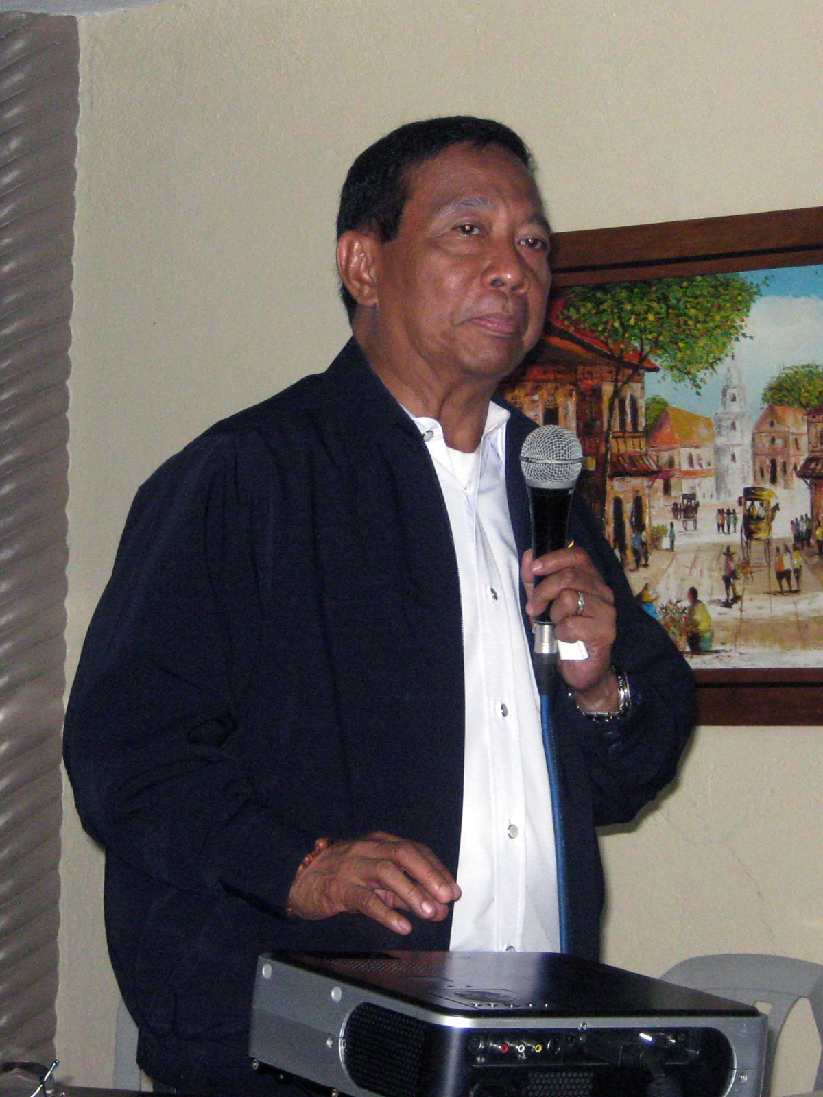 Makati City Mayor Jejomar Binay at a meeting of political leaders in Valencia, Negros Oriental, Philippines.